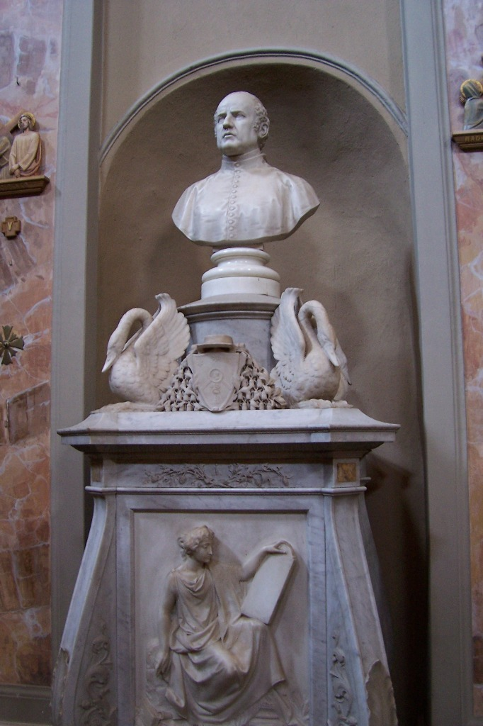 Statue of Angelo Maj, Schilpario, Val di Scalve